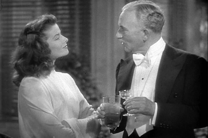 Philadelphia Story: Katharine Hepburn and John Halliday